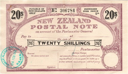 New Zealand 20 Shillings (1 Pound) Postal Note dated 26 February 1952.